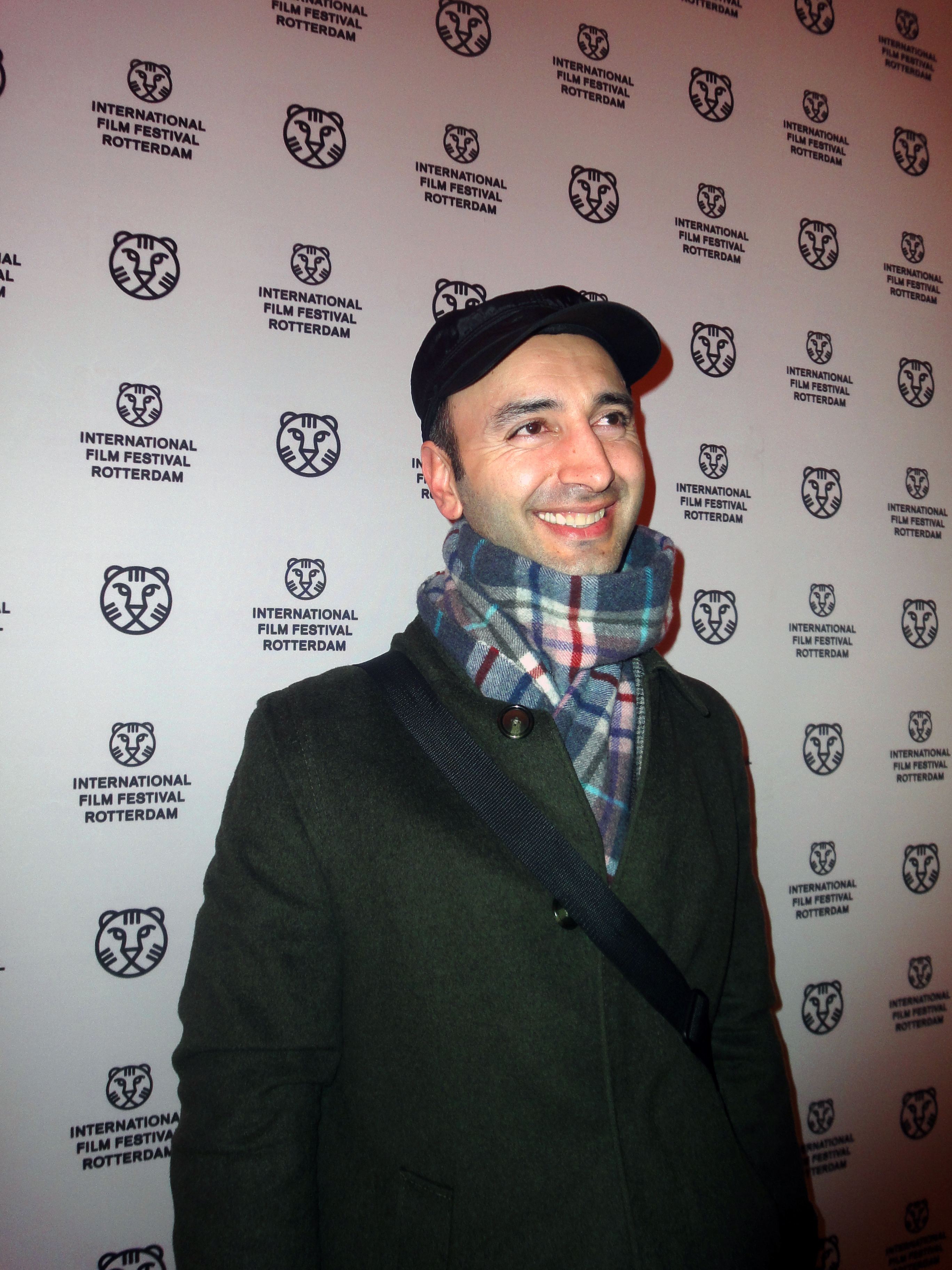 Serdar Yilmaz At the International Film Festival Rotterdam